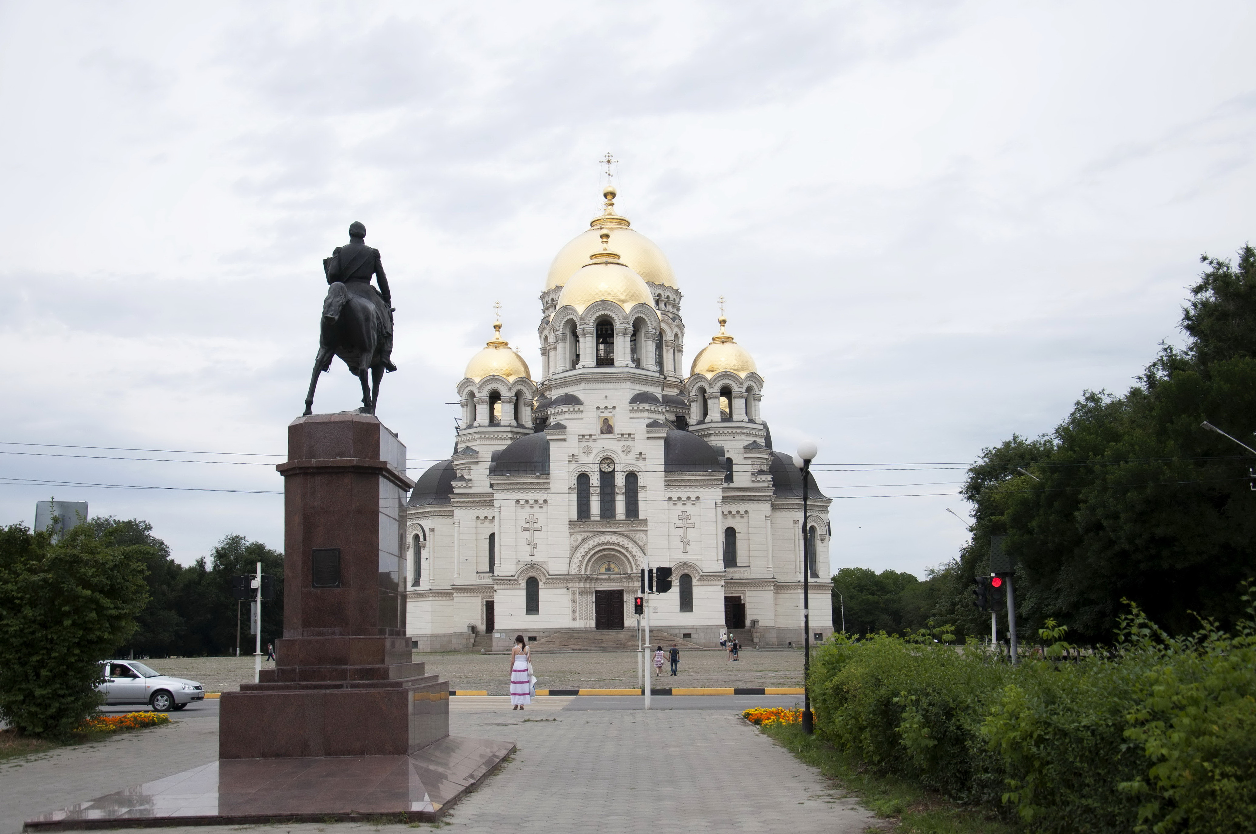 Ascension Cathedral - tomb of Heroes War of 1812: MI Platov, VV Orlov-Denisov, IE Efremov (Rostov region, Novocherkassk, Ermak area, 1)